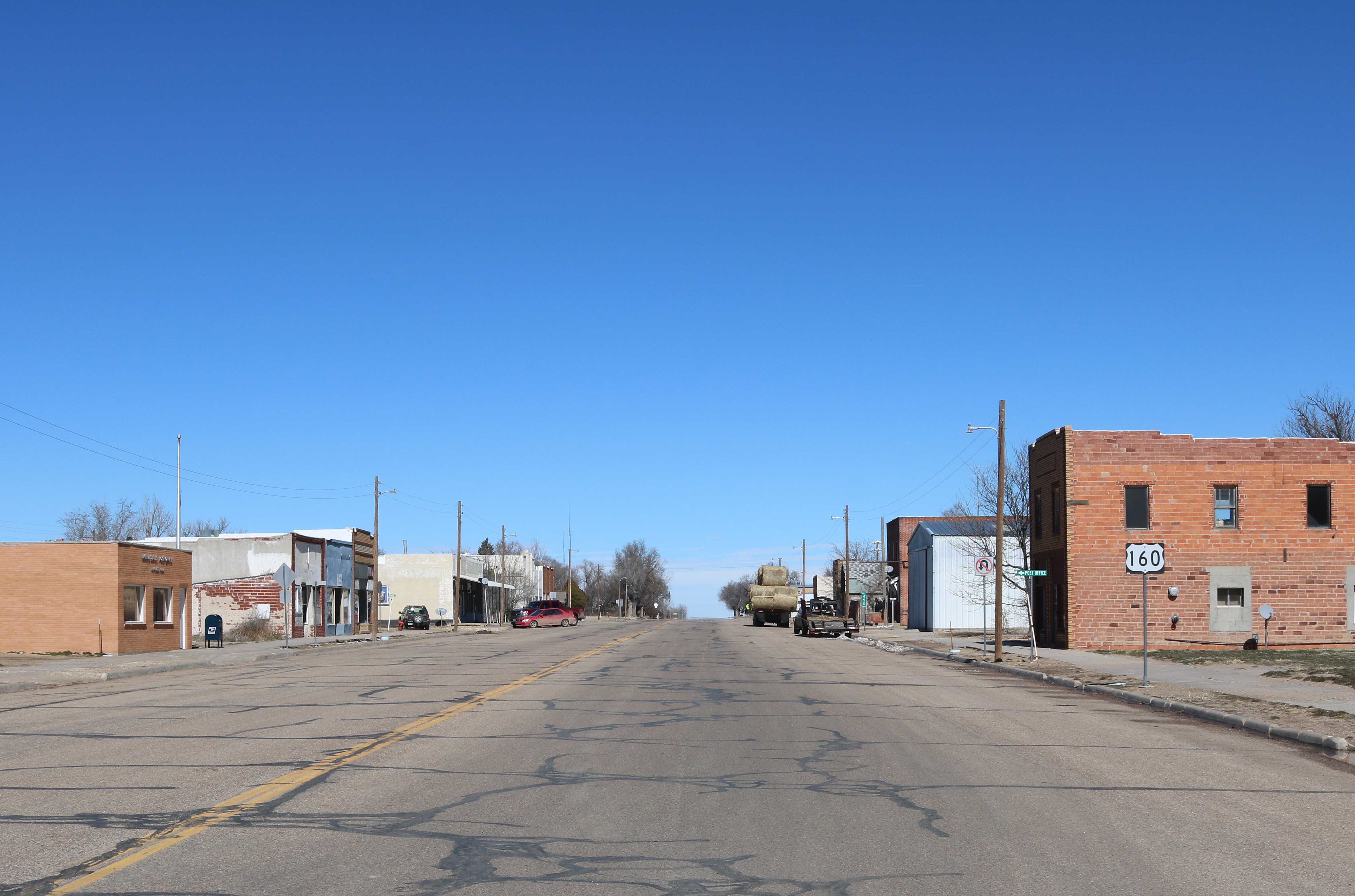 A view of Pritchett, Colorado. The view is towards the north along Randolph Street, which is also the town's main street, and it is also U.S. Route 160.